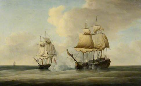 The Capture of the Duc de Chartres, 18 April 1747 'The Capture of the Duc de Chartres, 18 April 1747' Record Shot - Do not reproduce. ARTuk HMS Bellona commissioned in May 1747, under the command of Captain Samuel Barrington, took the Duke de Chartres an outbound Indiaman that same year on 17 August 1747.[1]